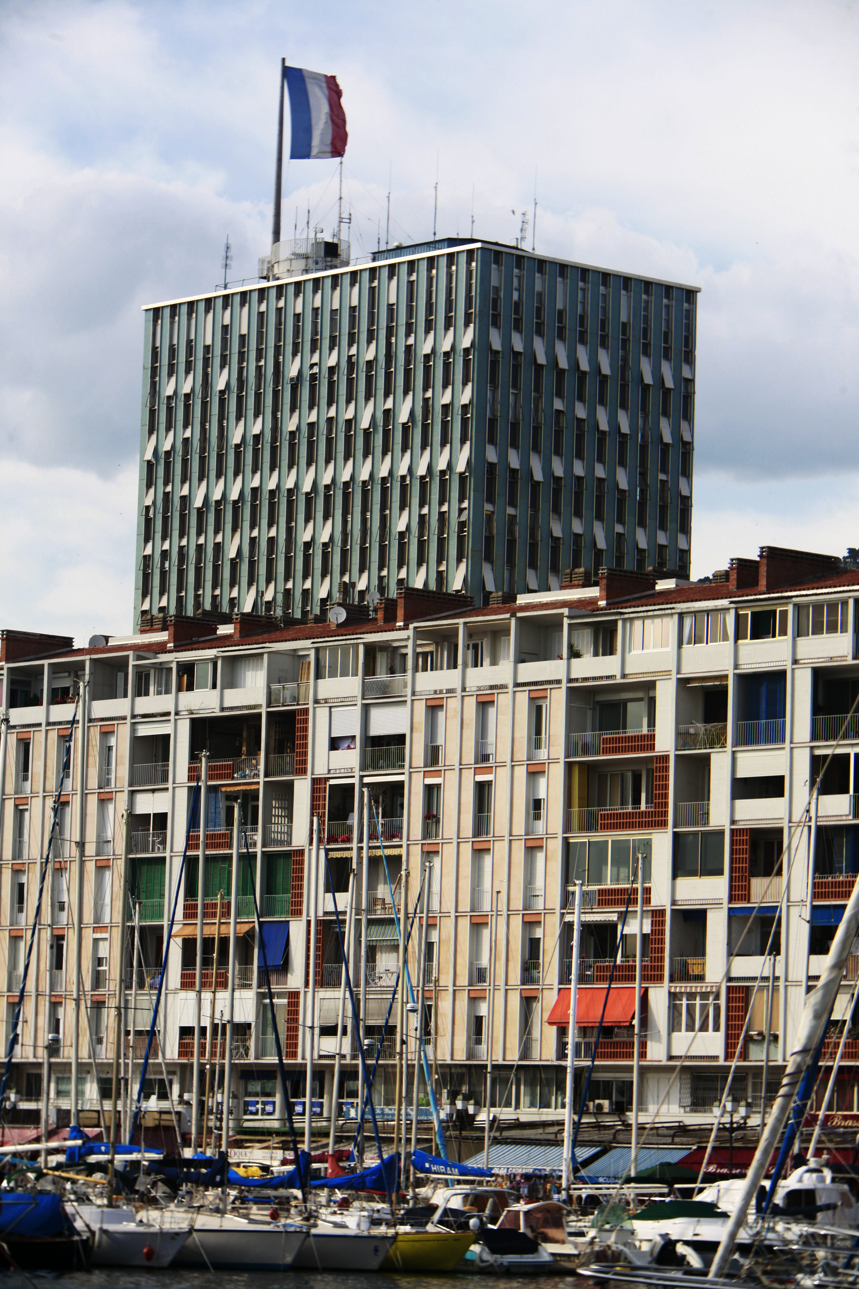 Toulon City hall